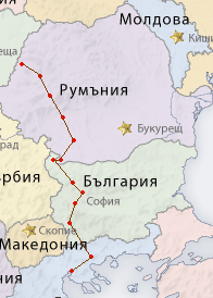 map of international road E79